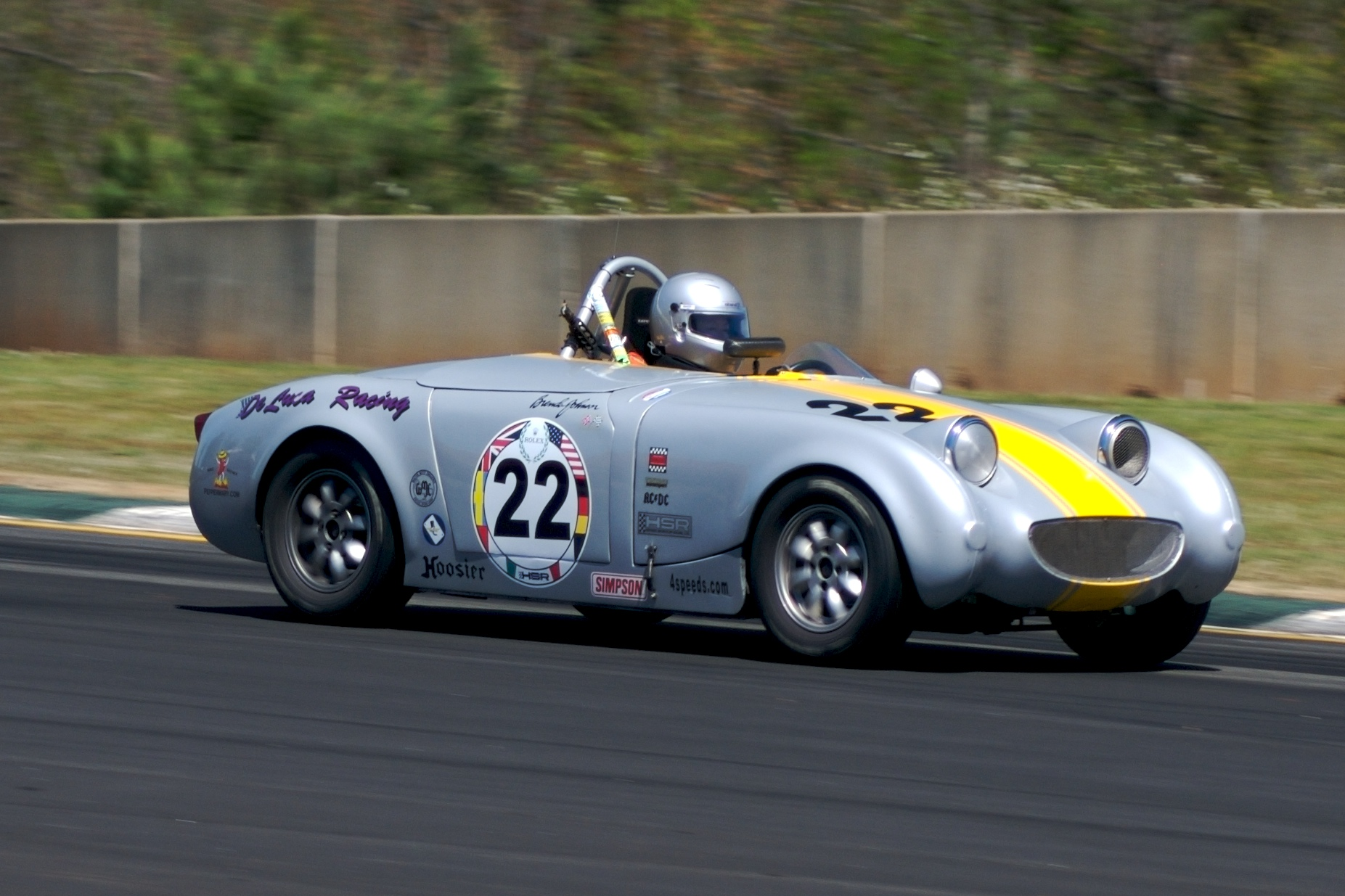 Austin Healey Sprite at the 2007 Walter Mitty Challenge at Road Atlanta